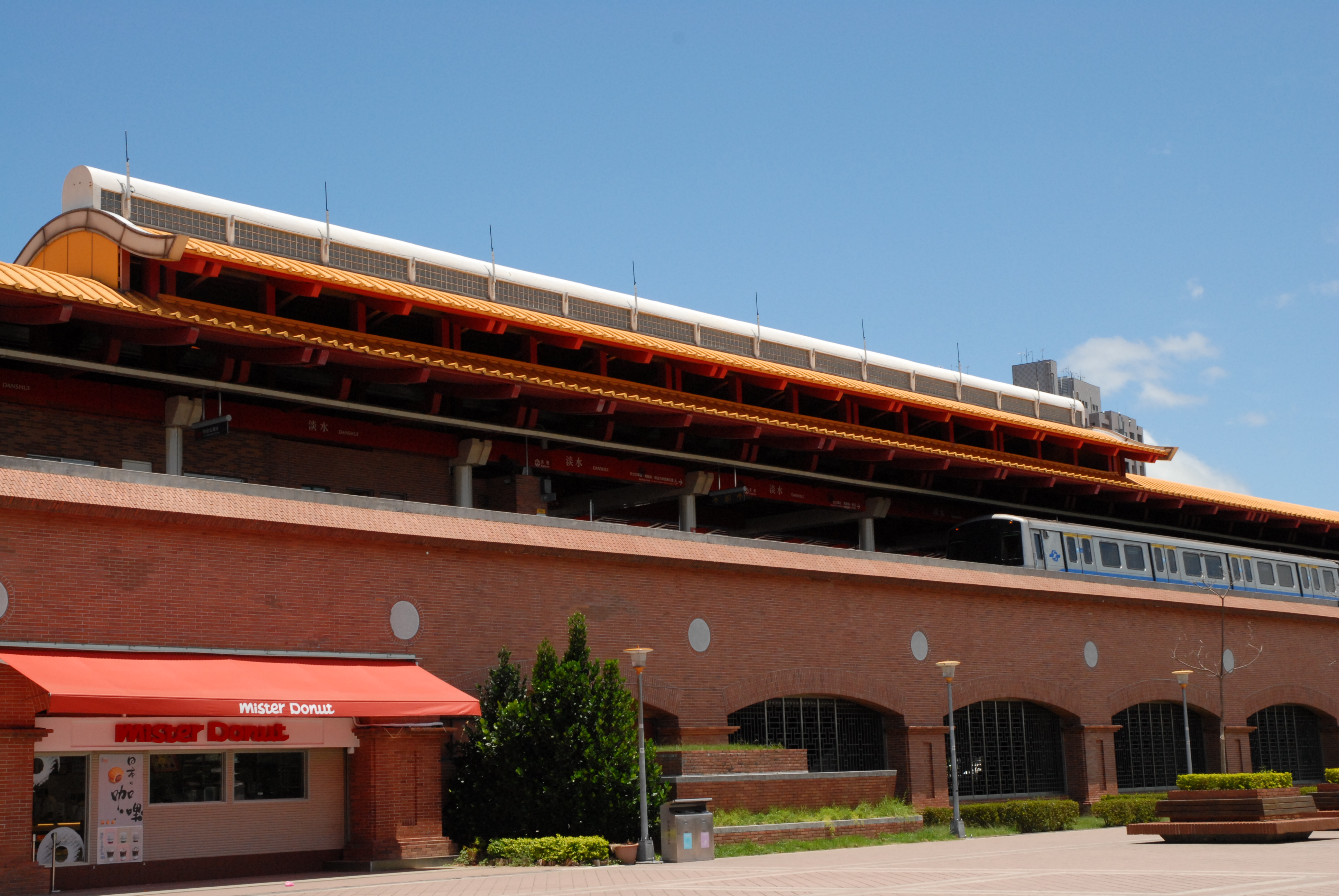 Taipei MRT station in Tamsui.